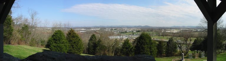 View from atop Winstead Hill, which was General Hood's headquarters during the Battle of Franklin. Franklin, Tennessee. Photograph by J. Williams. March 18, 2004.